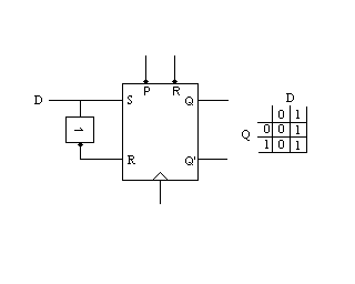 D-type Flip-Flop